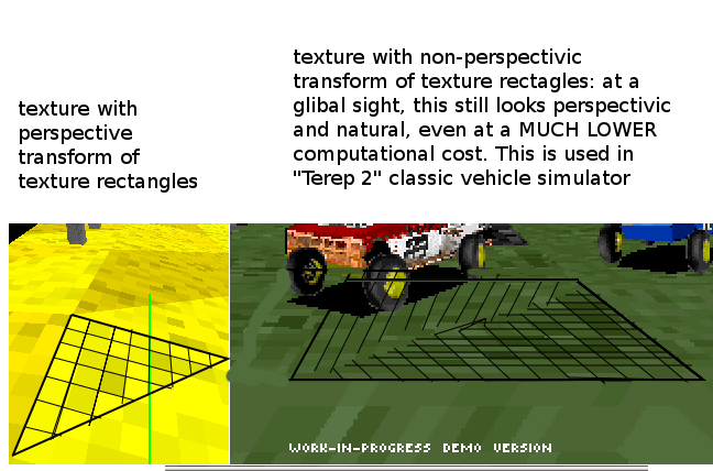 confront of 2 texturing methods for perspectivic landscapes in 3D videogmes. perspective-trasformed filling and isometric fillings are presented. Isomteric filling is tytpical of the calssic Terep 2, I saw it nowhere else... . will maybe post some C code that implements it.